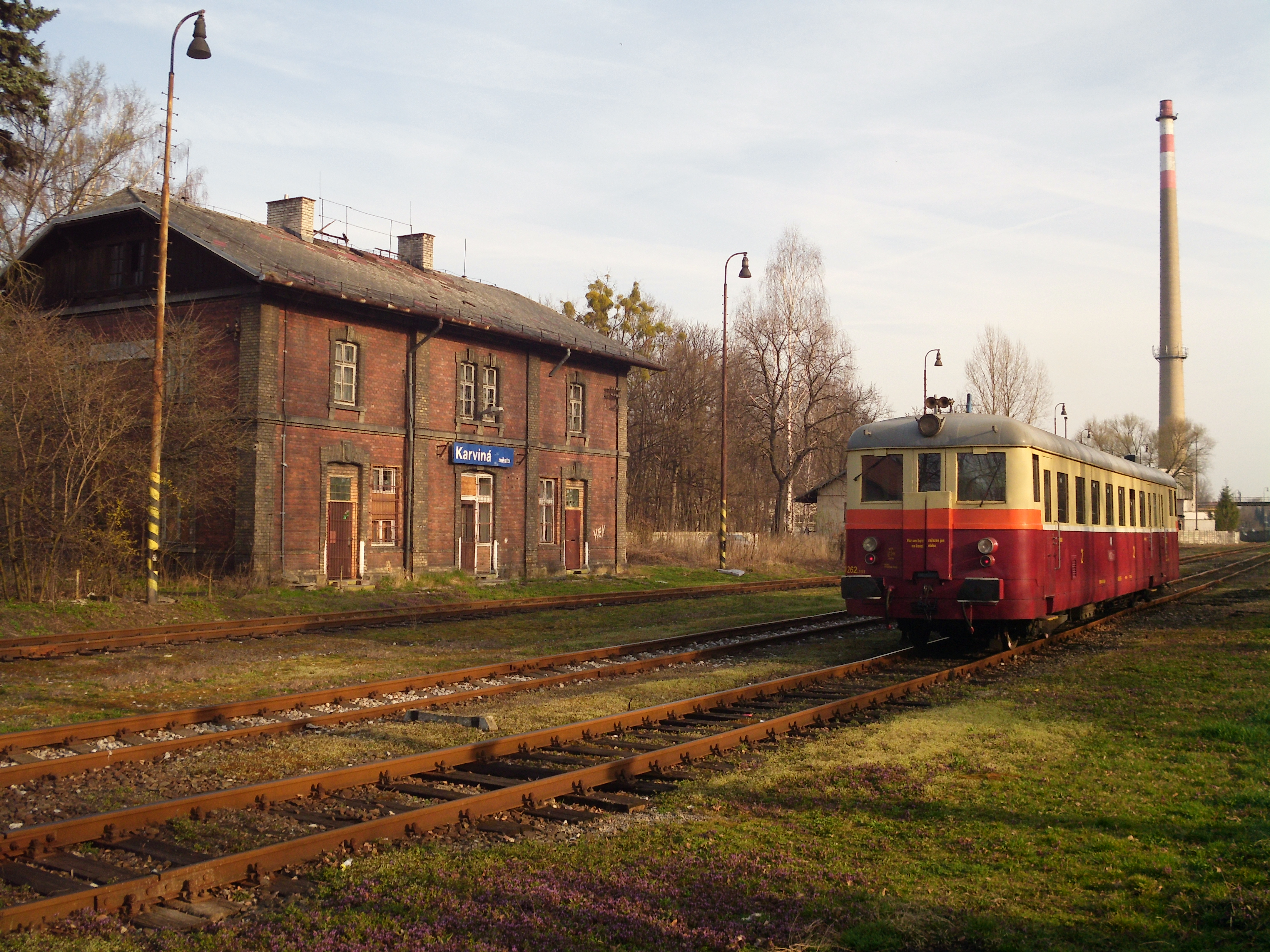 Diesel railcar M262.1117 of KŽC Doprava at Karviná město station in Karviná, Czech Republic, the terminus of a freight-only route from Petrovice u Karviné. There are no regular passenger trains on this line; this tour was organized as a charter for railfans.